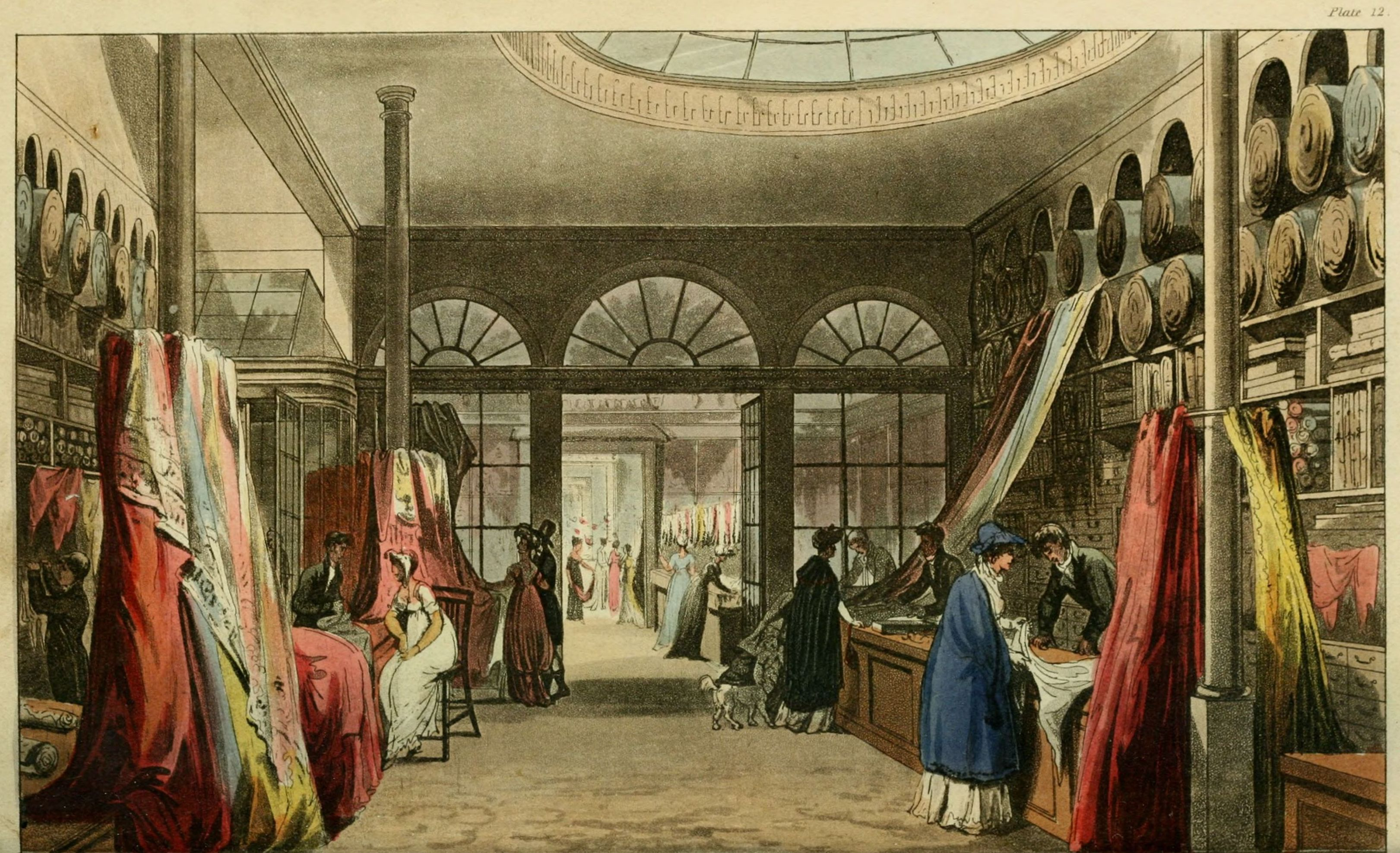 Harding, Howell & Co premises